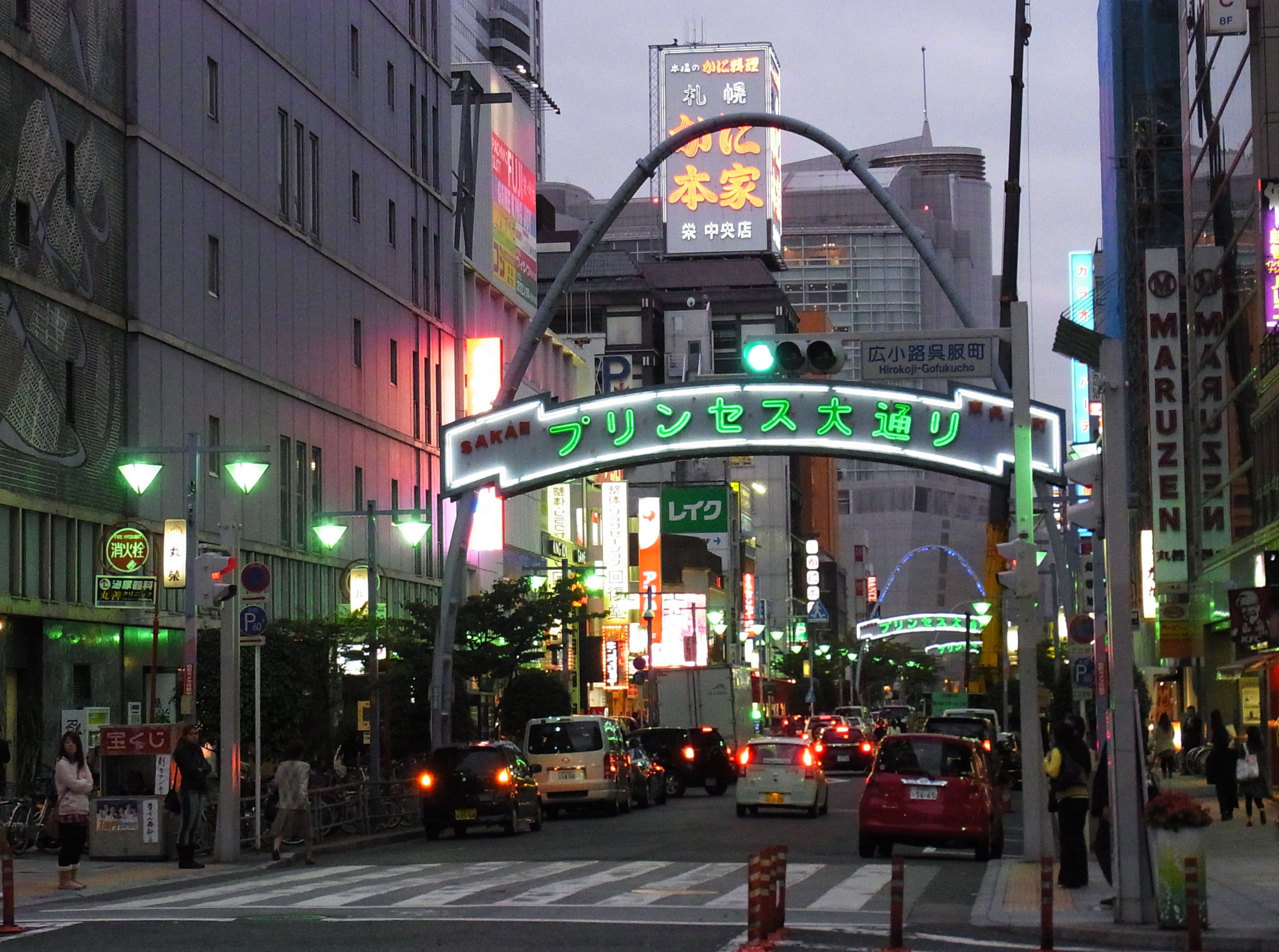 Princess-Odori (Prinscess street) is mall in Sakae, Nagoya.